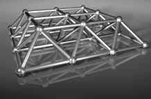 Spaceframe embodiment by the GEO System (1)